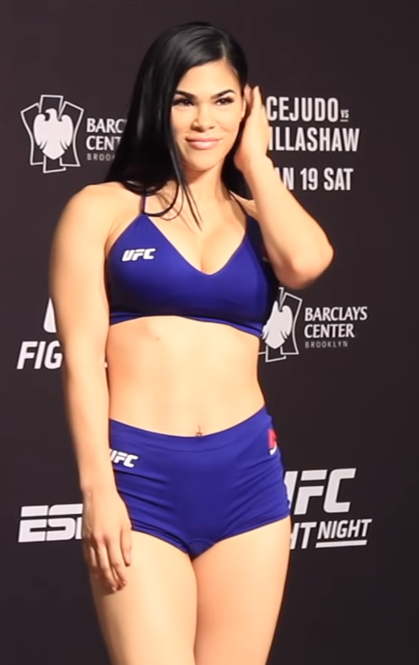 Rachael Ostovich weighs in for #UFConESPN American mixed martial artist Rachael Ostovich poses after weigh-in at UFC on ESPN+ 1 in New York. Visit Europe's biggest MMA website Follow us on our Social Media channels: Facebook: Instagram: Twitter